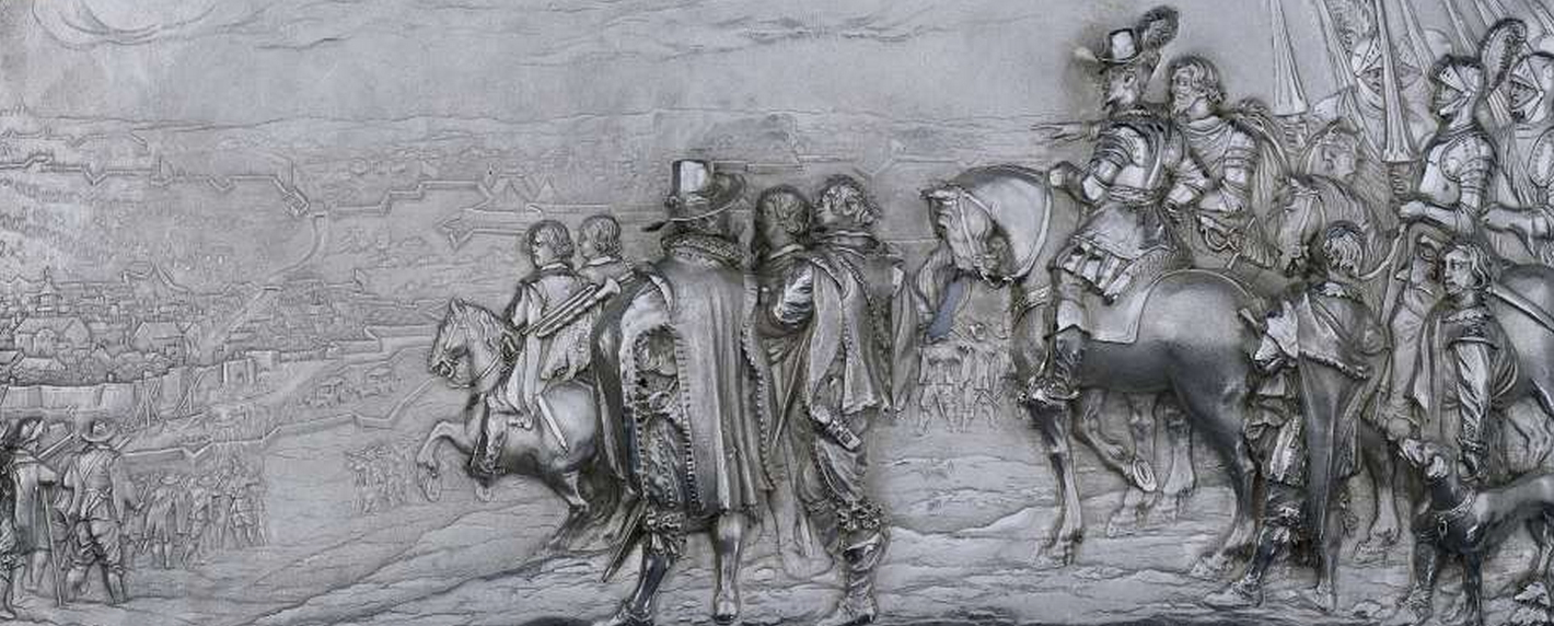 A bas-relief of hammered silver that is oblong and square with rounded corners, with the presentation of the commander Ambrogio Spinola during the siege of Jülich in 1622. Signed and dated: MATEVS. MELIN. F 1636.